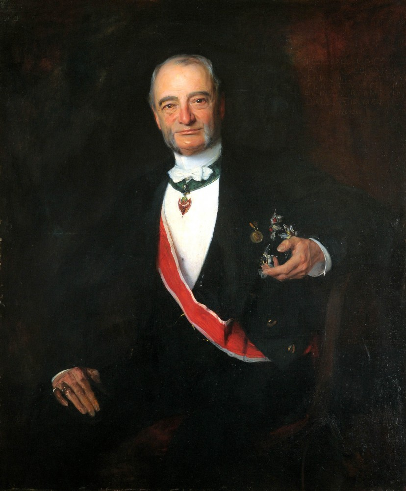 Bohuslav Count Chotek von Chotkowa und Wognin